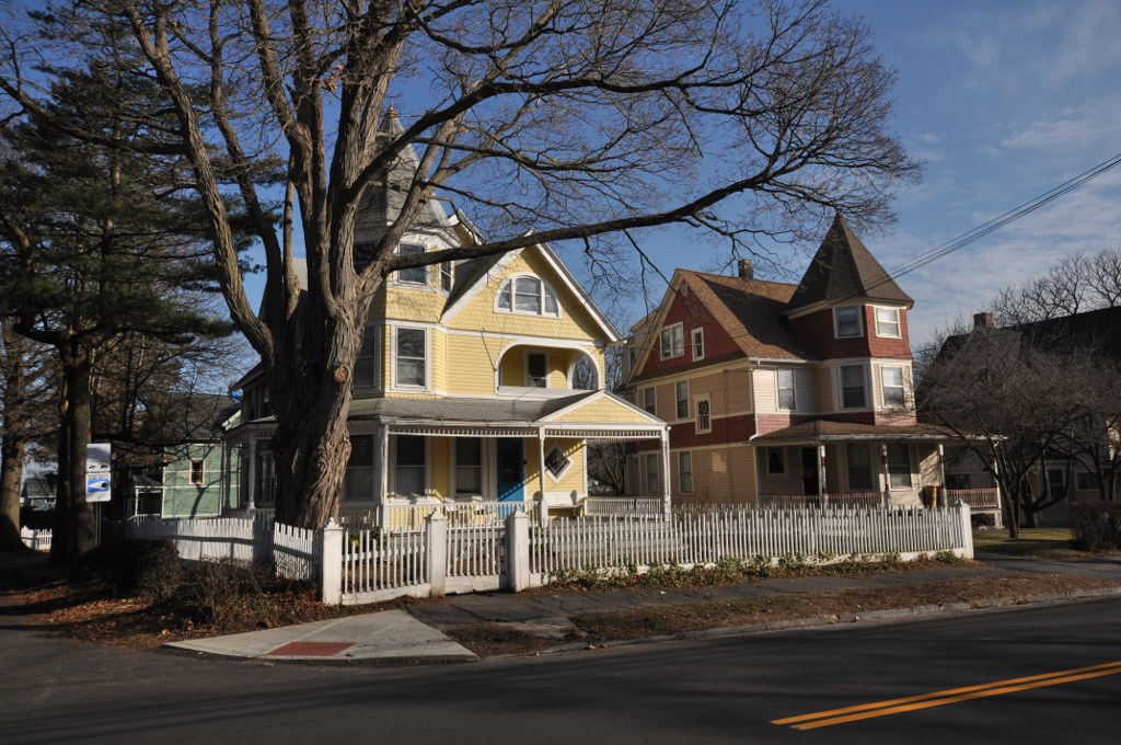 Queen Anne style houses on Ellsworth Street, in the Black Rock Historic District, Bridgeport, Connecticut.